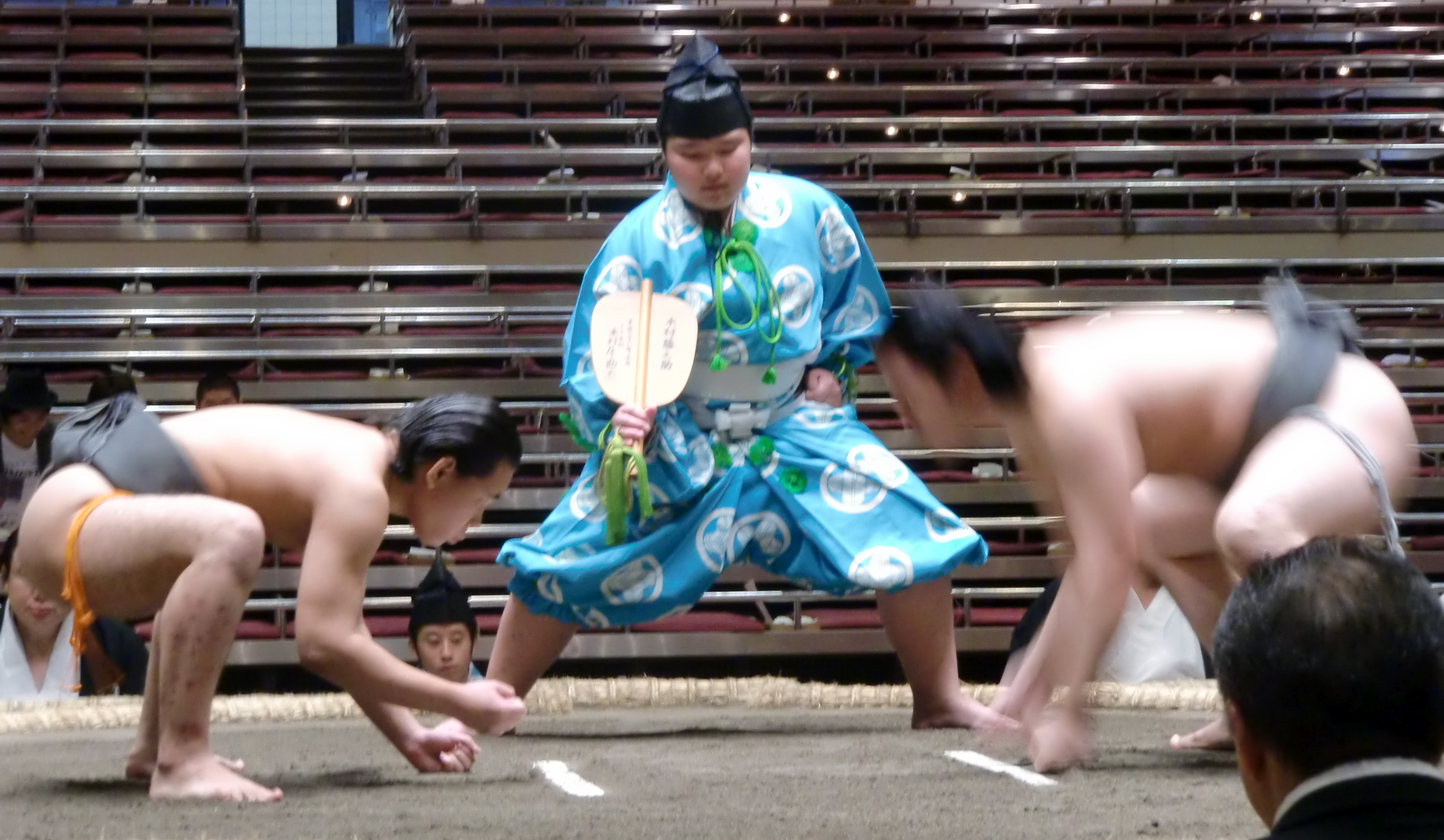 Taken by myself at a recent tournament